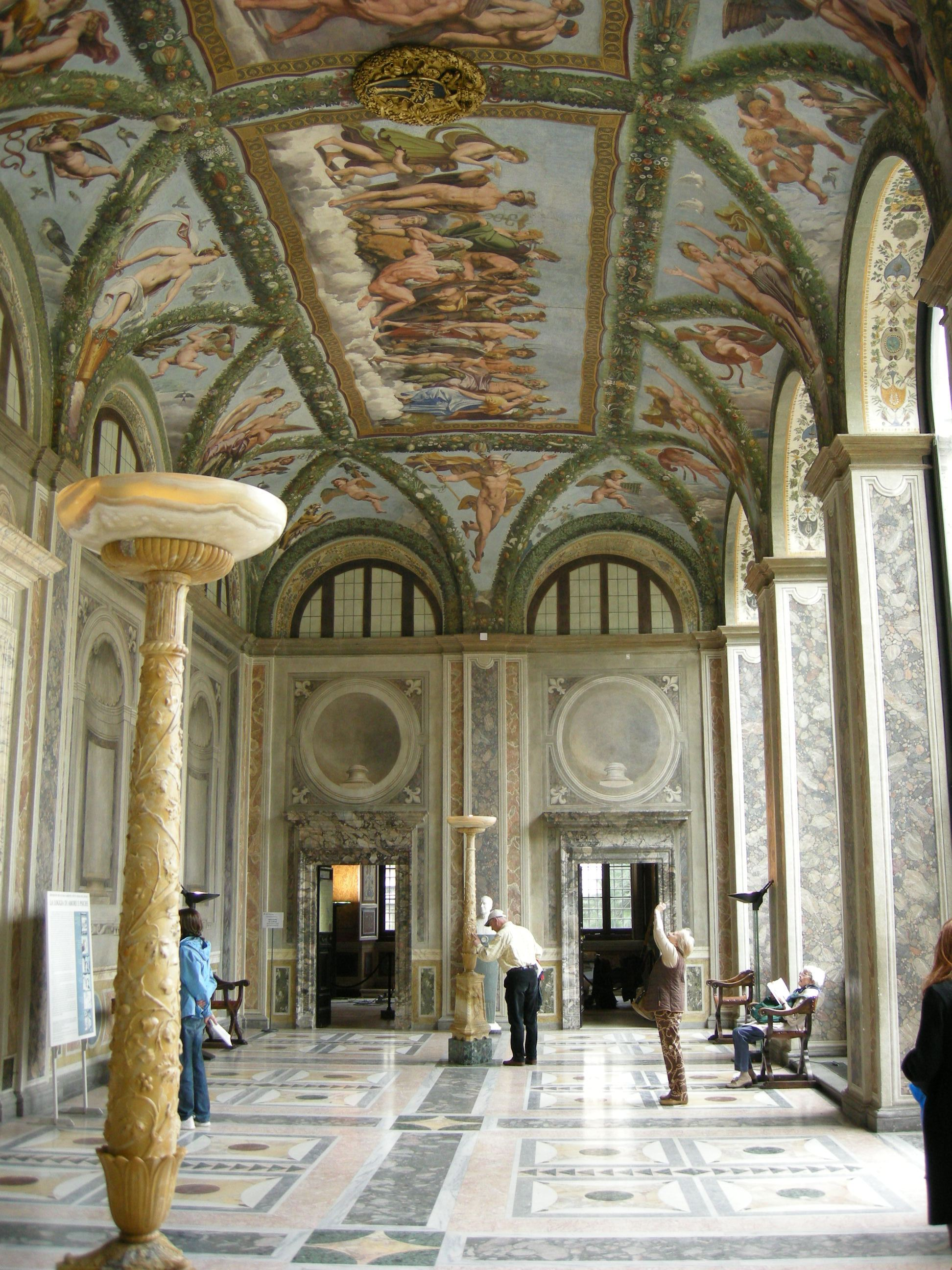 Villa Farnesina, Rome